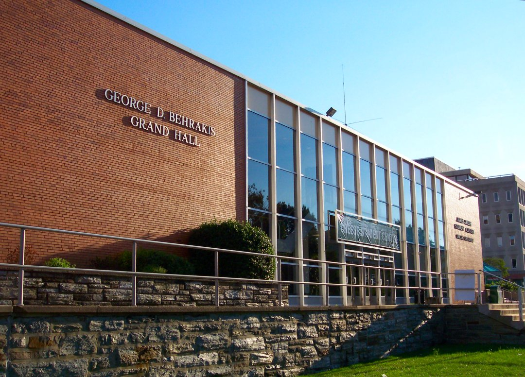 Summary Drexel University's Creese Center. Photo taken by ImGz, July 2006. Category:Images of Philadelphia, Pennsylvania